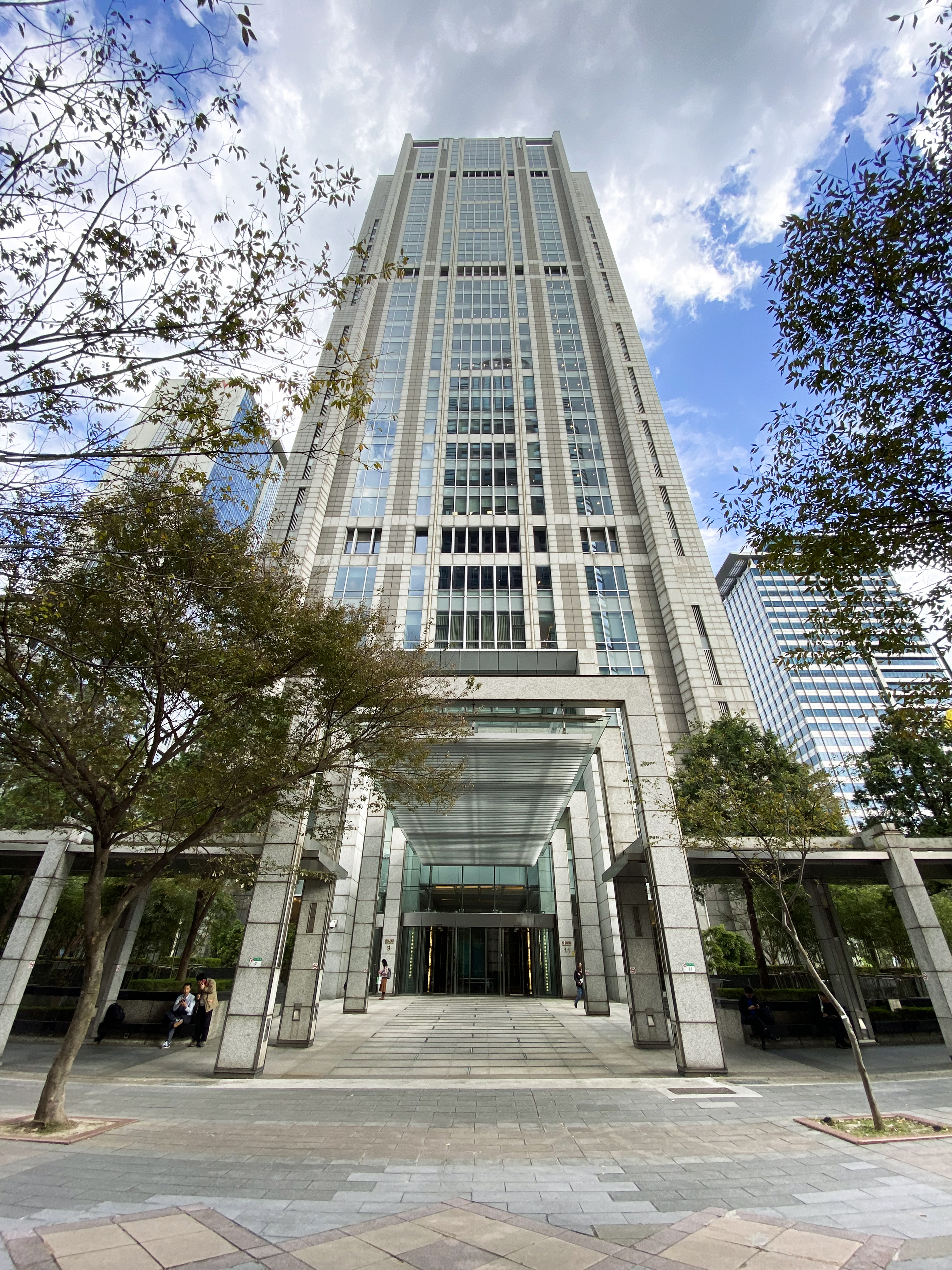 President International Tower